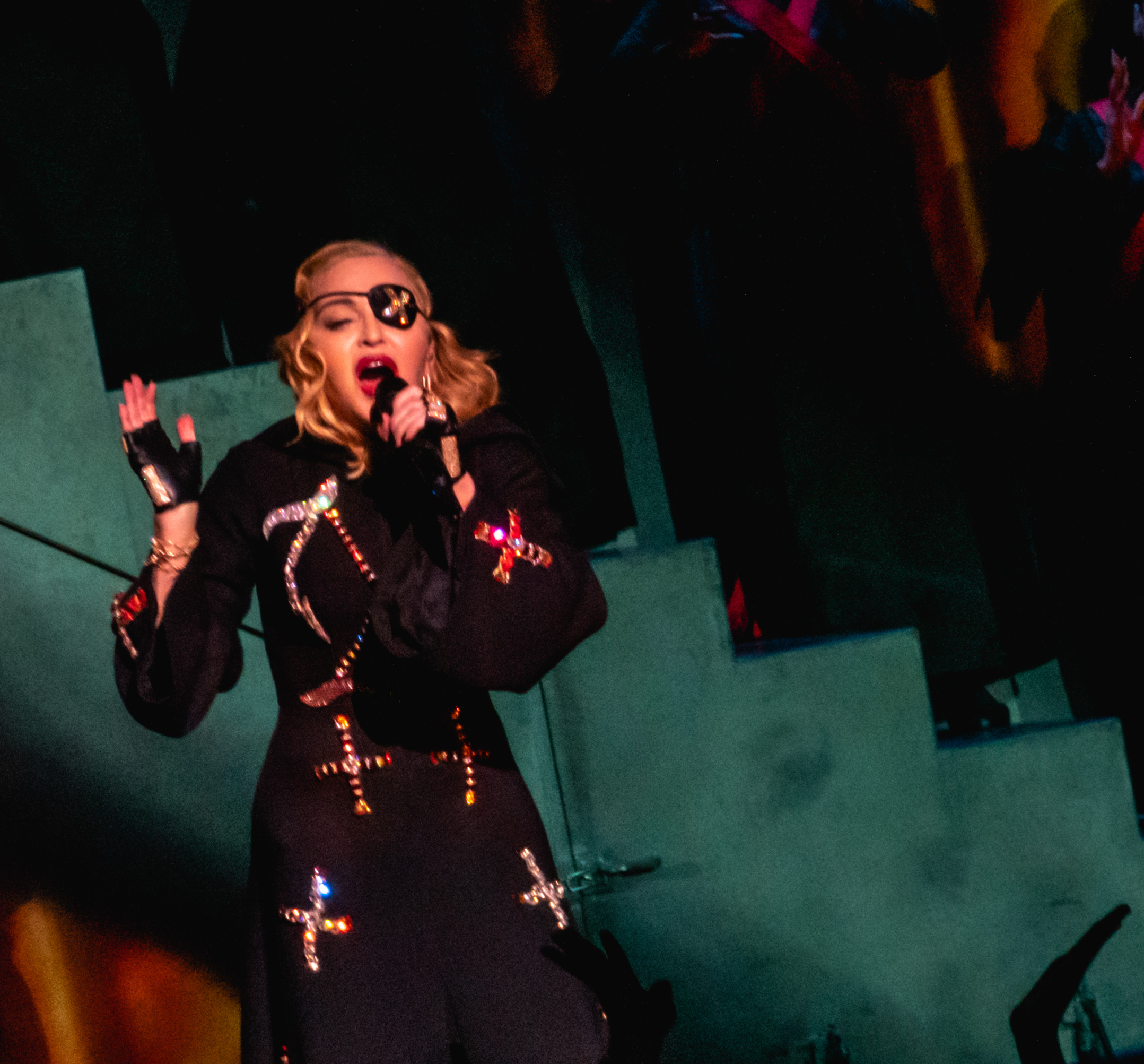 Madonna during her Madame X Tour in London Palladium - Sunday 16th February 2020